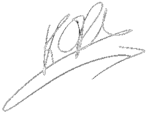 Autograph of Karl Fuhrmann, ex-Drummer of Lacrimas Profundere